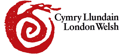 Official logo of the London Welsh Centre